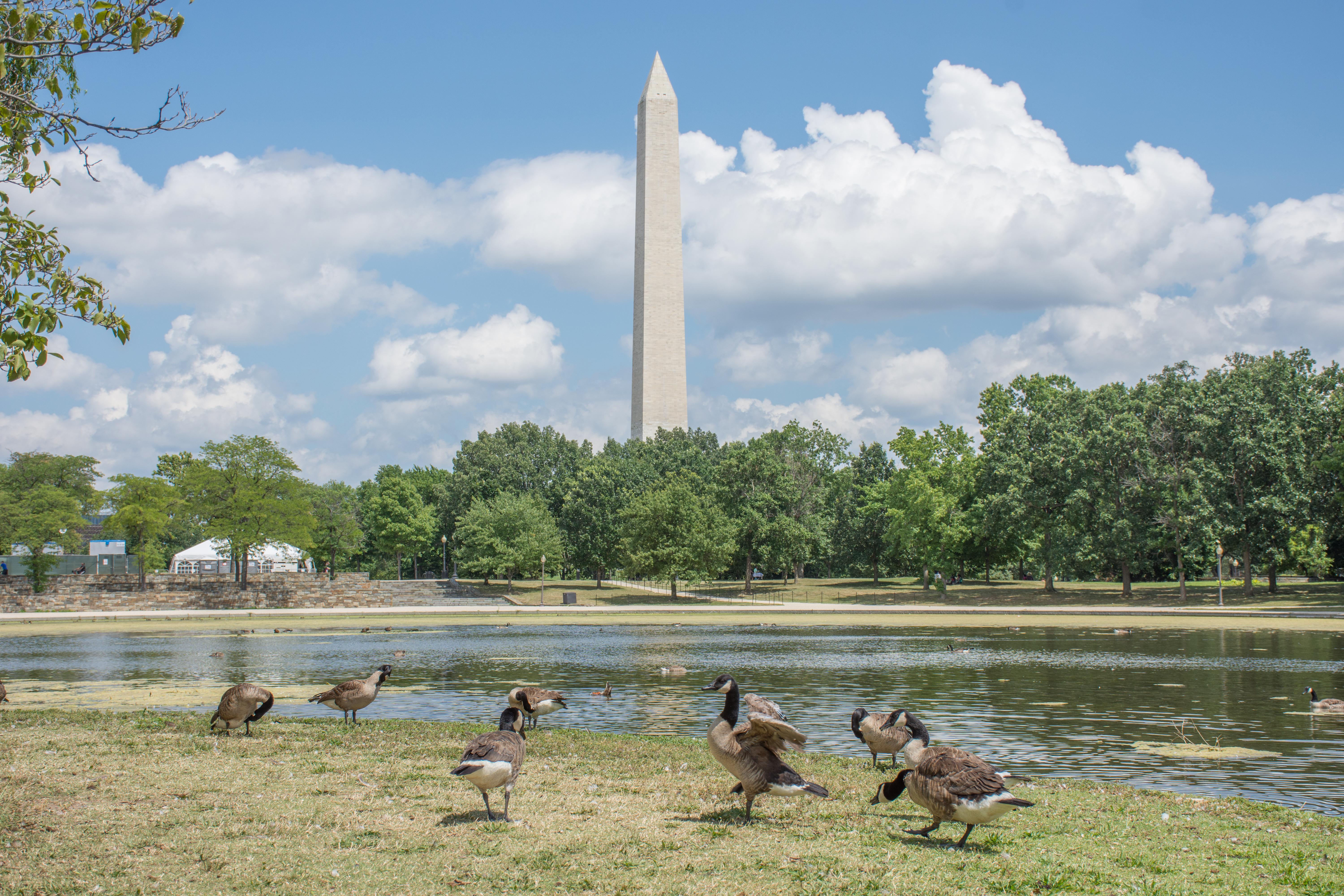 The Constitution Gardens in Washington, D.C., July 2017.